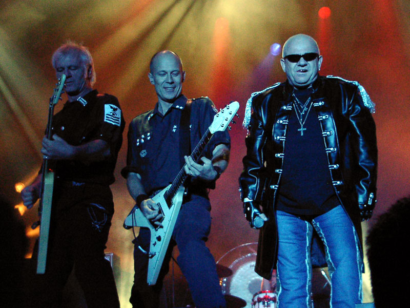 Accept performing at Wacken Open Air 2005.